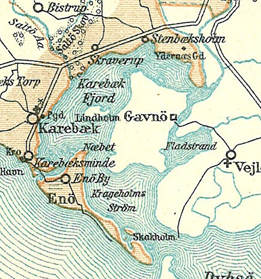 Map of Karrebæk Fjord in Denmark